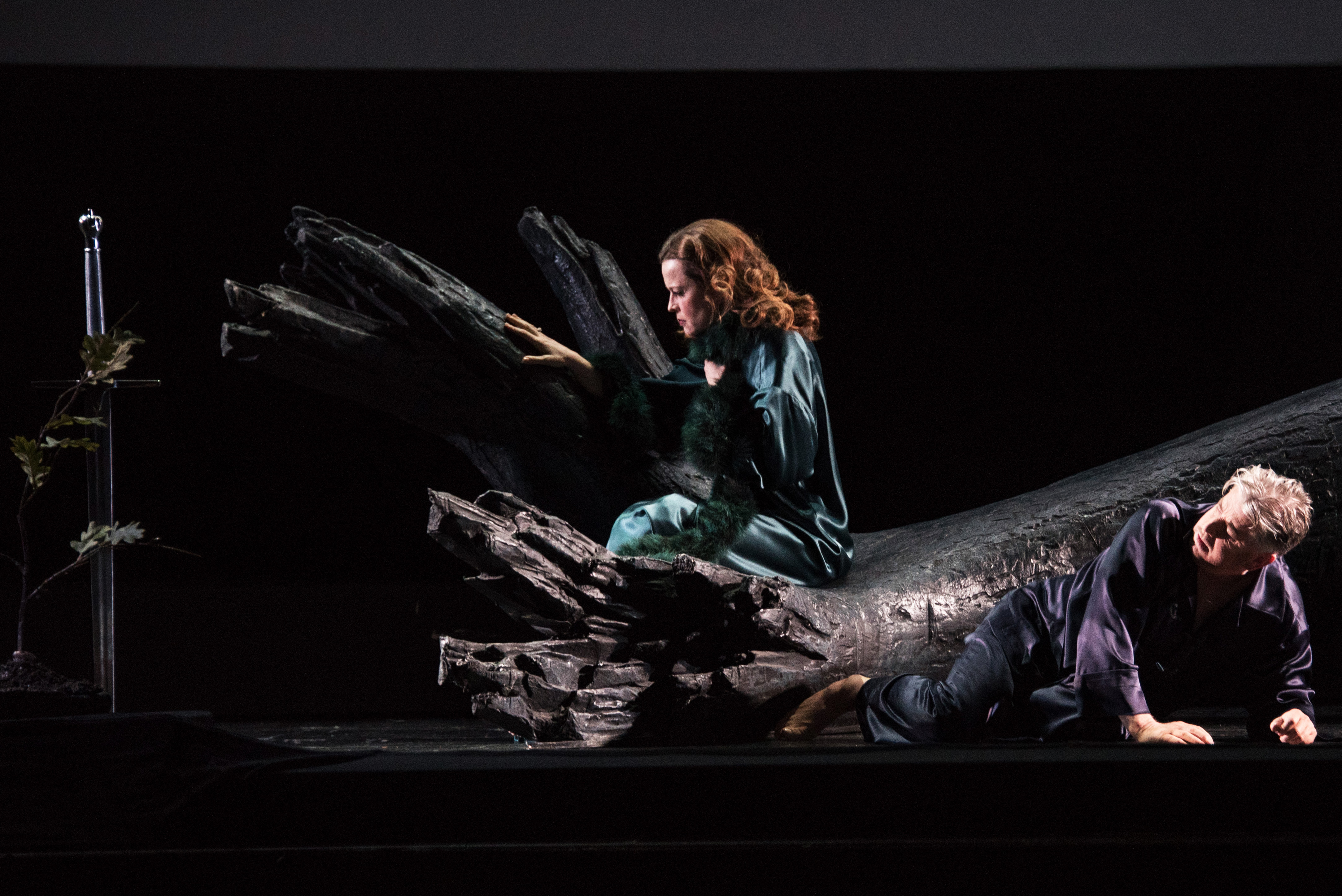 Lohengrin by Richard Wagner, Opera Oslo 2015